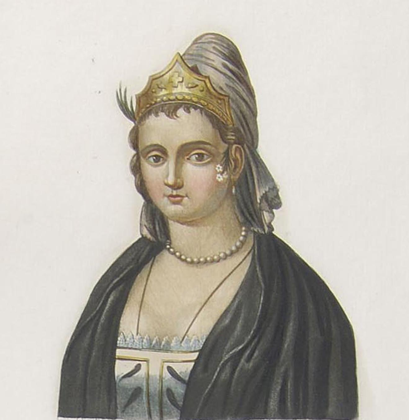 Francesca Bentivoglio